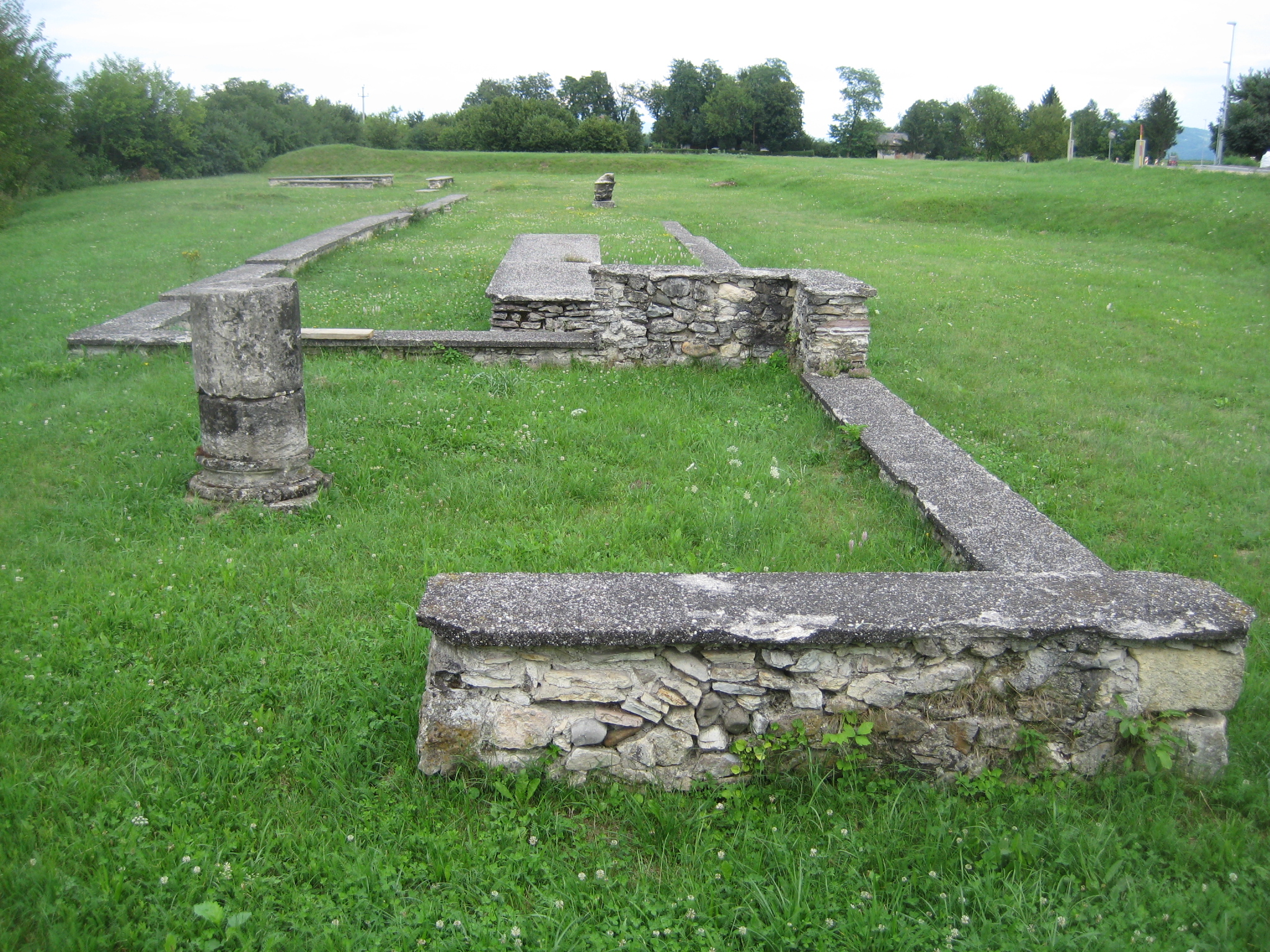 Neviodunum, roman settlement near (today) Krško, Slovenia.